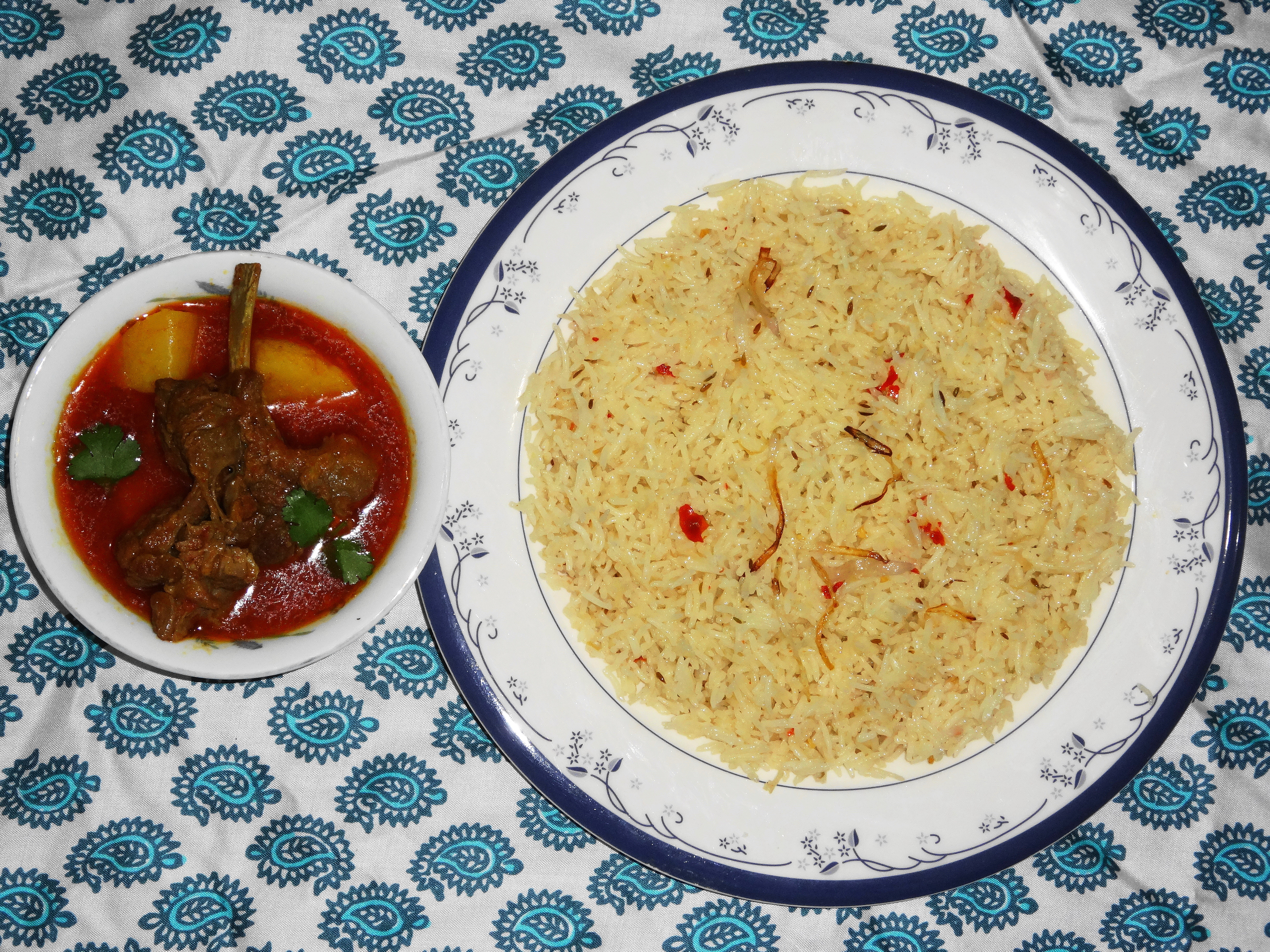 سلونے چاول آلو گوشت کے ساتھ